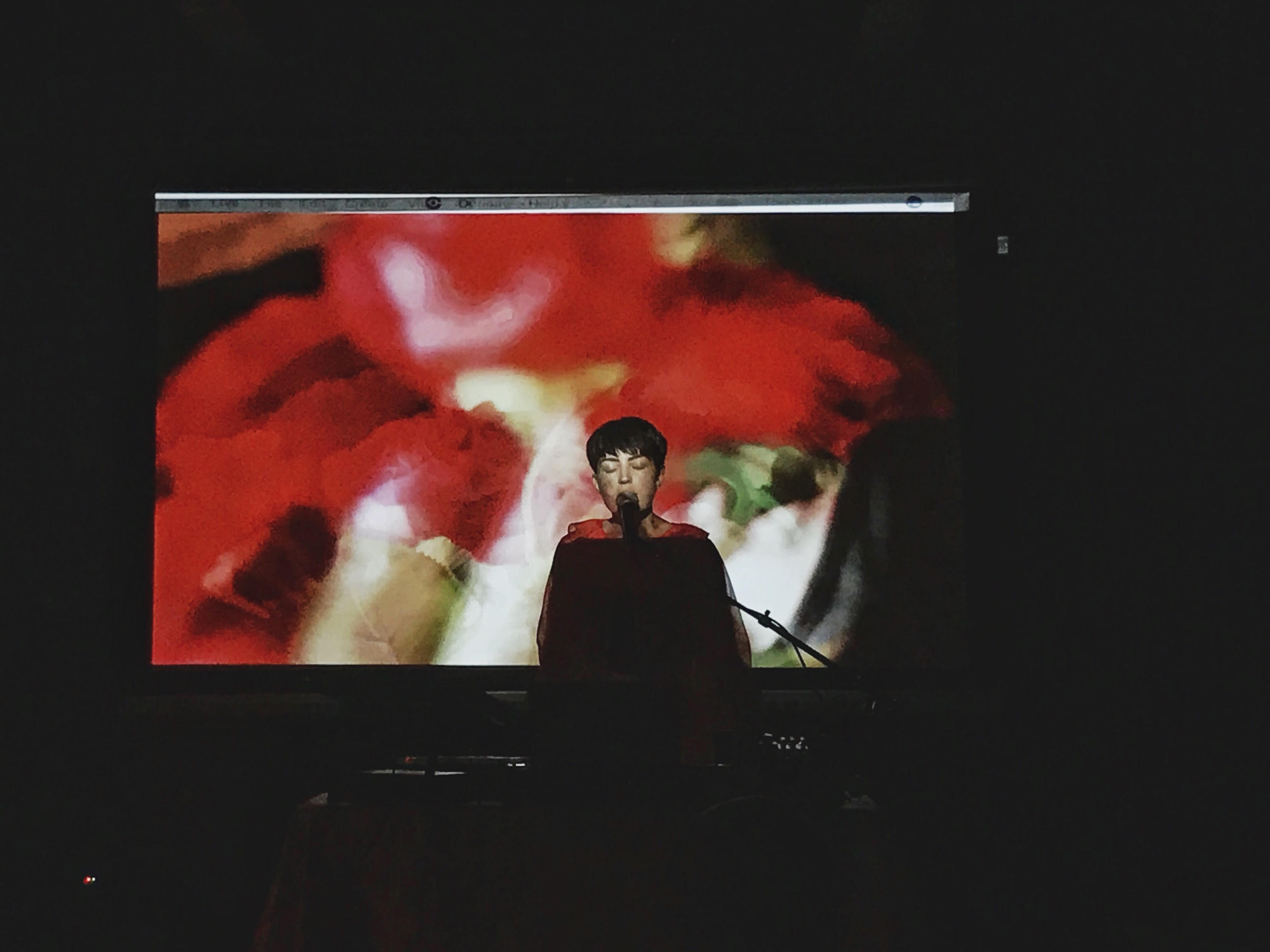 Drum & Lace; Processed with VSCO with 5 preset; Ticket # 2017101010012971